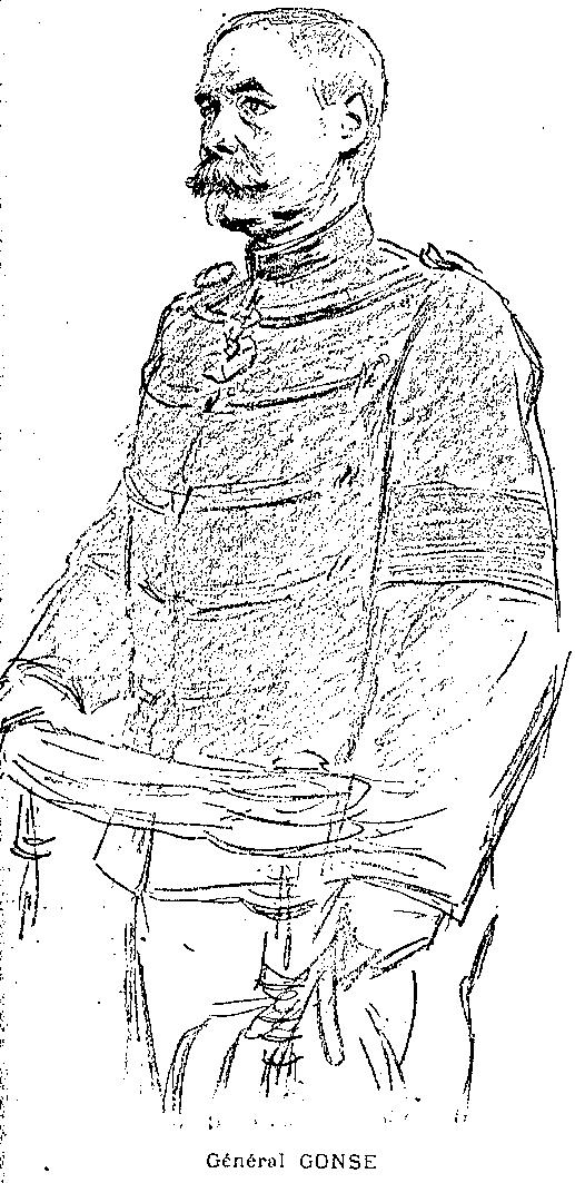 General Gonse (From a grave in the paper L'illustration, 12th frbruary 1898)